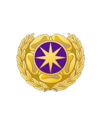 Joint Duty Service Lapel Button The Director of National Intelligence has established the National Intelligence Joint Duty Service Lapel Button. This award recognizes those IC employees who have completed an IC civilian joint duty assignment in accordance with Intelligence Community Policy Guidance (ICPG) 601.01, Intelligence Community Civilian Joint Duty Program Implementing Instructions. The lapel button was designed by the U.S. Army’s Institute of Heraldry. DESCRIPTION: A gold color medal 5/8 inches (1.59 cm) in diameter overall consisting of a heraldic rose bearing a purple disk charged with a compass rose of eight points, all encircled except for top by a gold wreath. SYMBOLISM: The heraldic rose, symbol of secrecy and confidence, refers to "Sub Rosa" which is Latin for "under the rose." It has been a traditional symbol to describe something to be kept secret and not repeated anywhere. The compass rose at the center on a globe, represents the world wide mission of the organization. The purple is associated with Joint Duty Service. The laurel wreath is emblematic of excellence and high ideals.